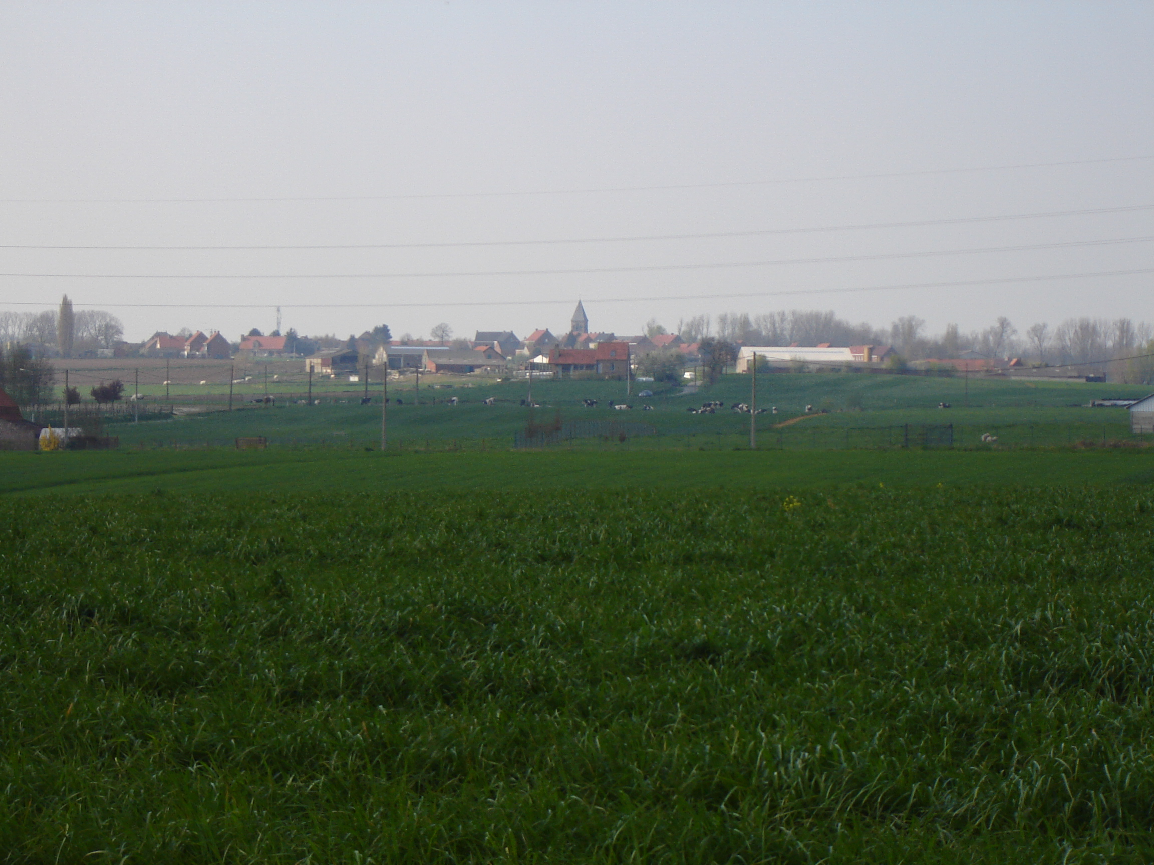 View on Geluveld. Zandvoorde, Zonnebeke, West Flanders, Belgium